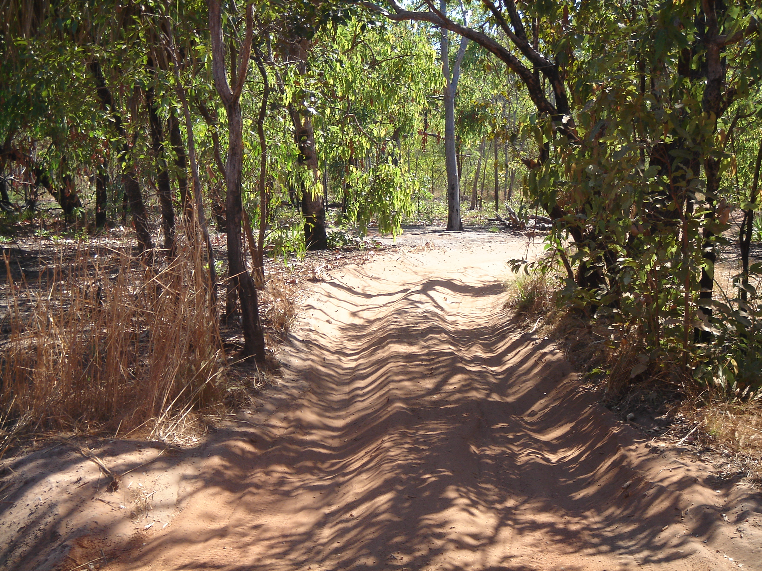 Trail to Jim Jim Falls and Twin Falls